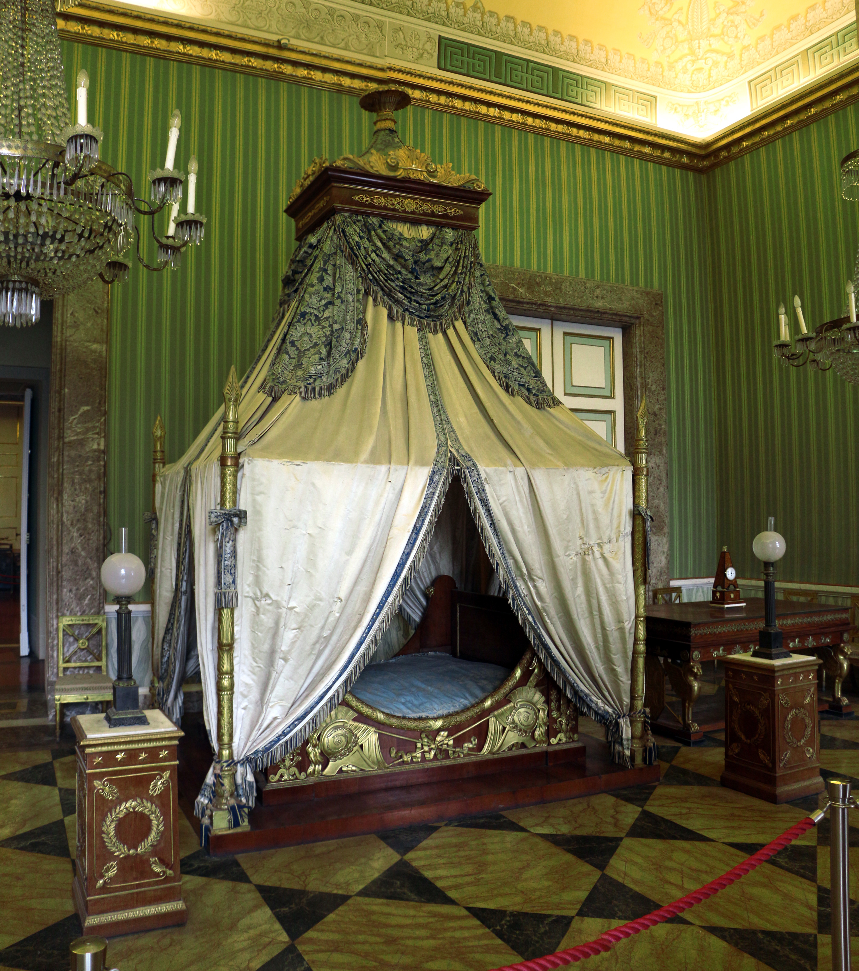 Palace of Caserta